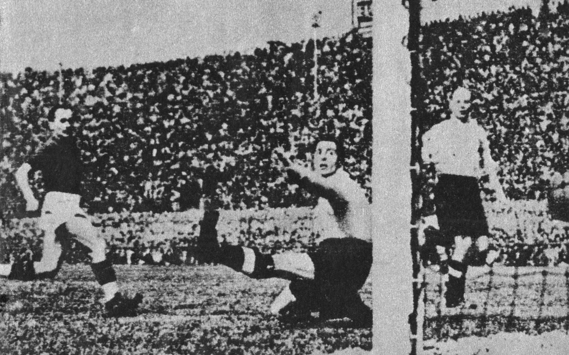 Milan (Italy), San Siro, May 13, 1939. Italy — England 2-2, friendly game: Italian midfielder Amedeo Biavati (left) beats the English goalkeeper Vic Woodley (centre) and scores at 49' the partial 1-1.